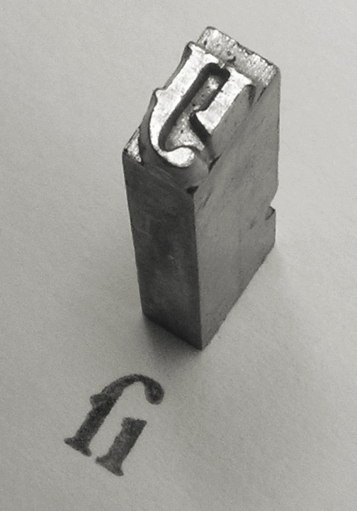 Ligature of ſ and i in 12pt Garamond.